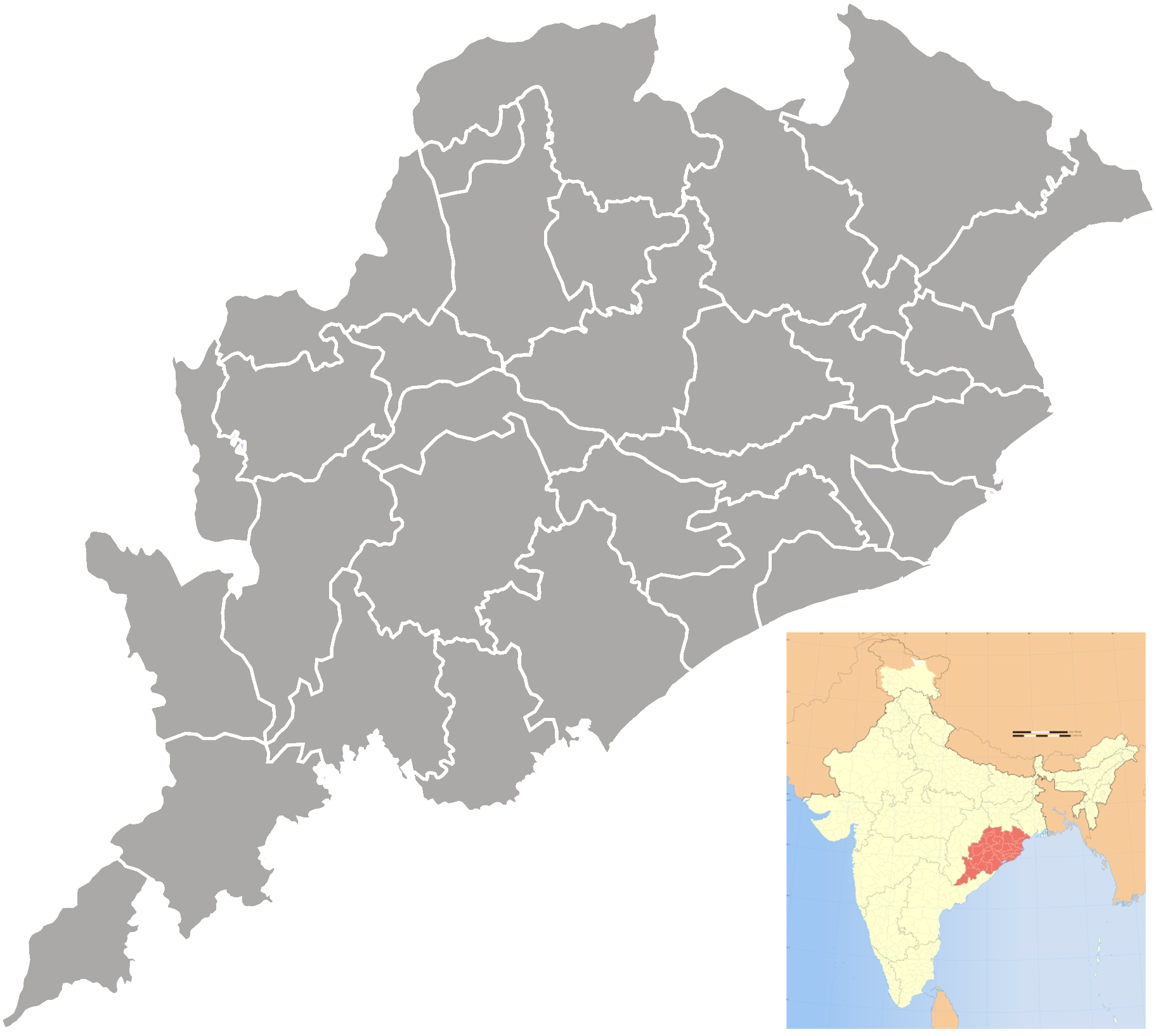 Blank district map of Orissa